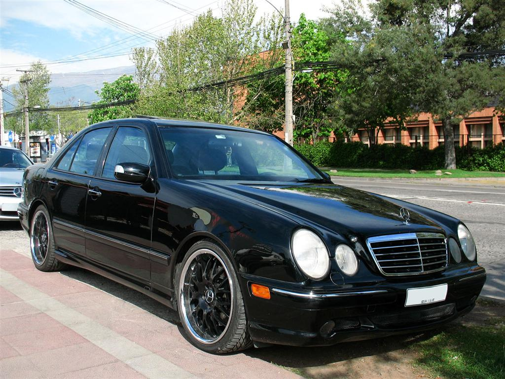 Mercedes-Benz E 55 AMG (W 210)